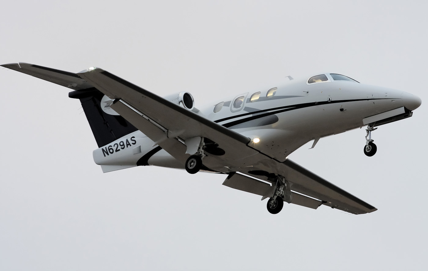 Great looking bizjet landing in not so great looking weather. :) Smyrna Airport is the third largest airport in Tennessee and is the state's busiest general aviation airport.